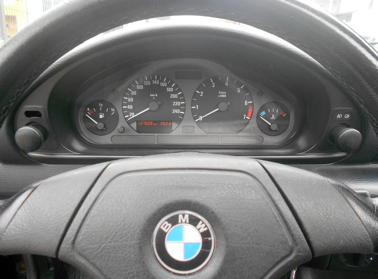 E36/5 BMW Compact 318ti